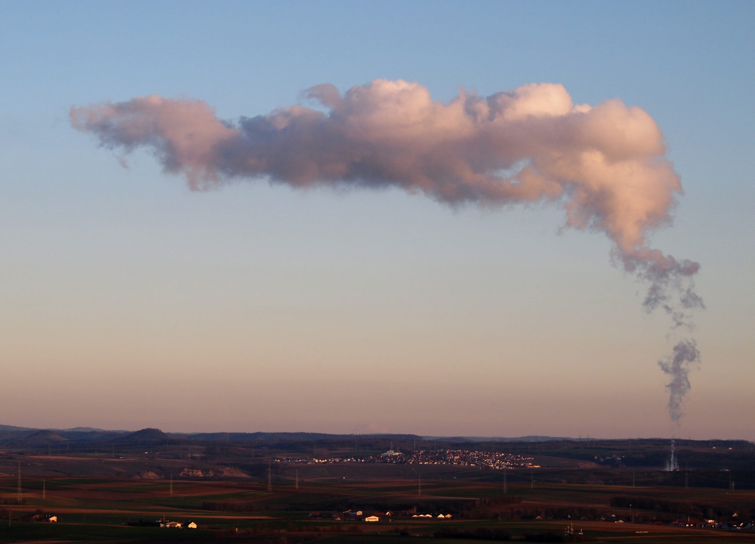 Neckarwestheim, a small town in south-west Germany located on the Neckar river, well known as the location of the Neckarwestheim Nuclear Power Plant which causes a permanent cloud of steam.